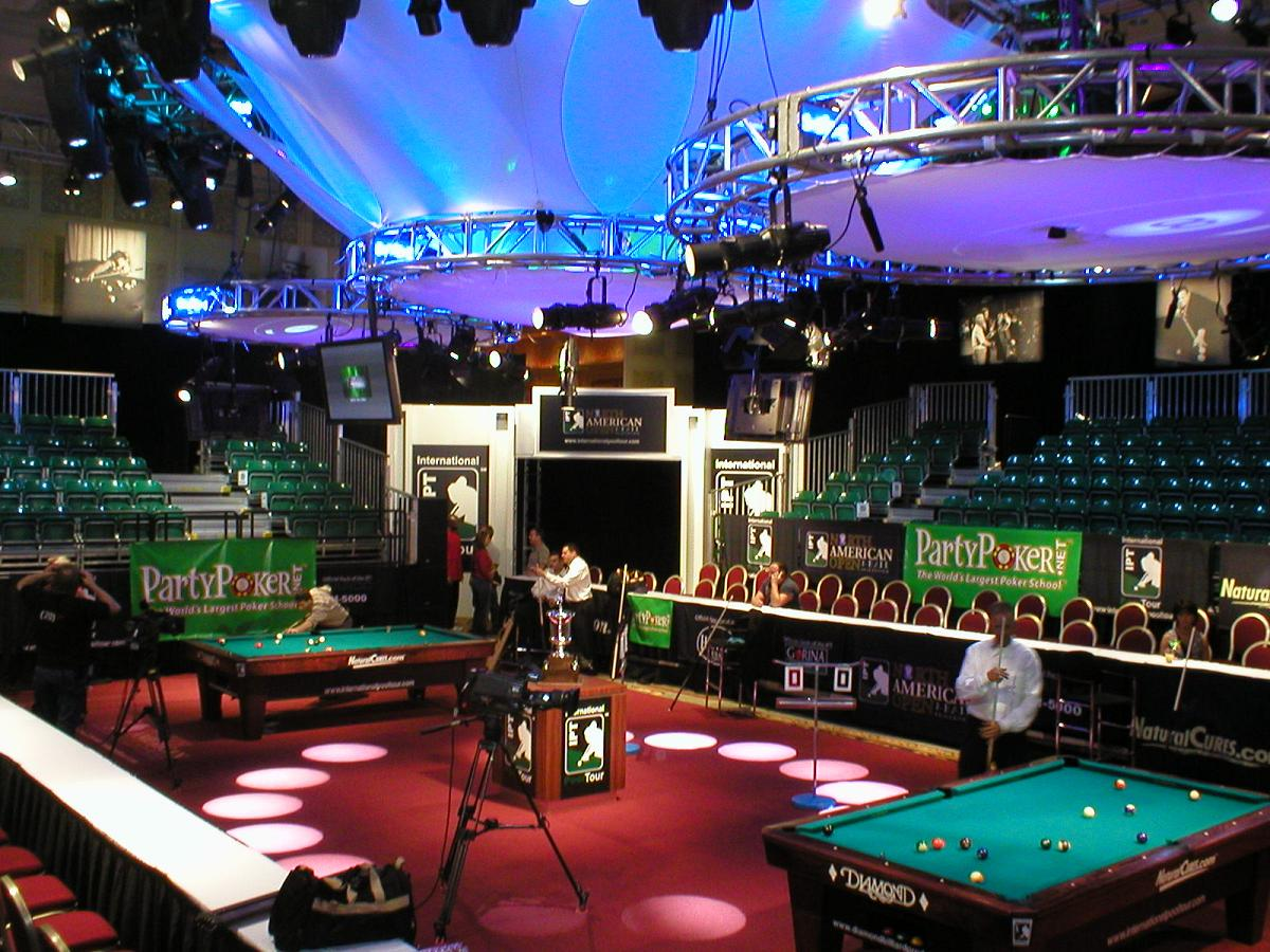 This is my personal photograph and may be released to the public domain that I took with my camera.